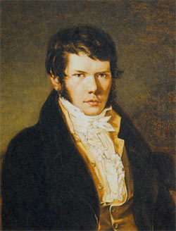 Prince Pyotr Andreyevich Vyazemsky (1792–1878) Russian poet and writer.